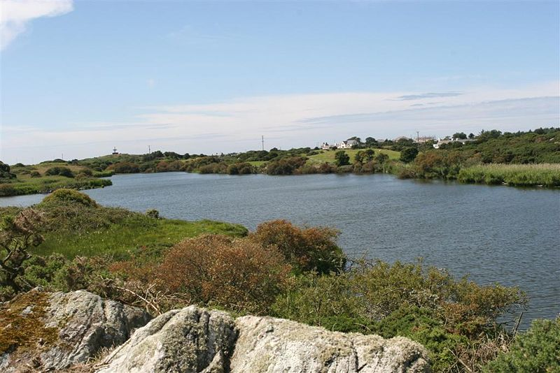 Llyn Treflesg, Anglesey